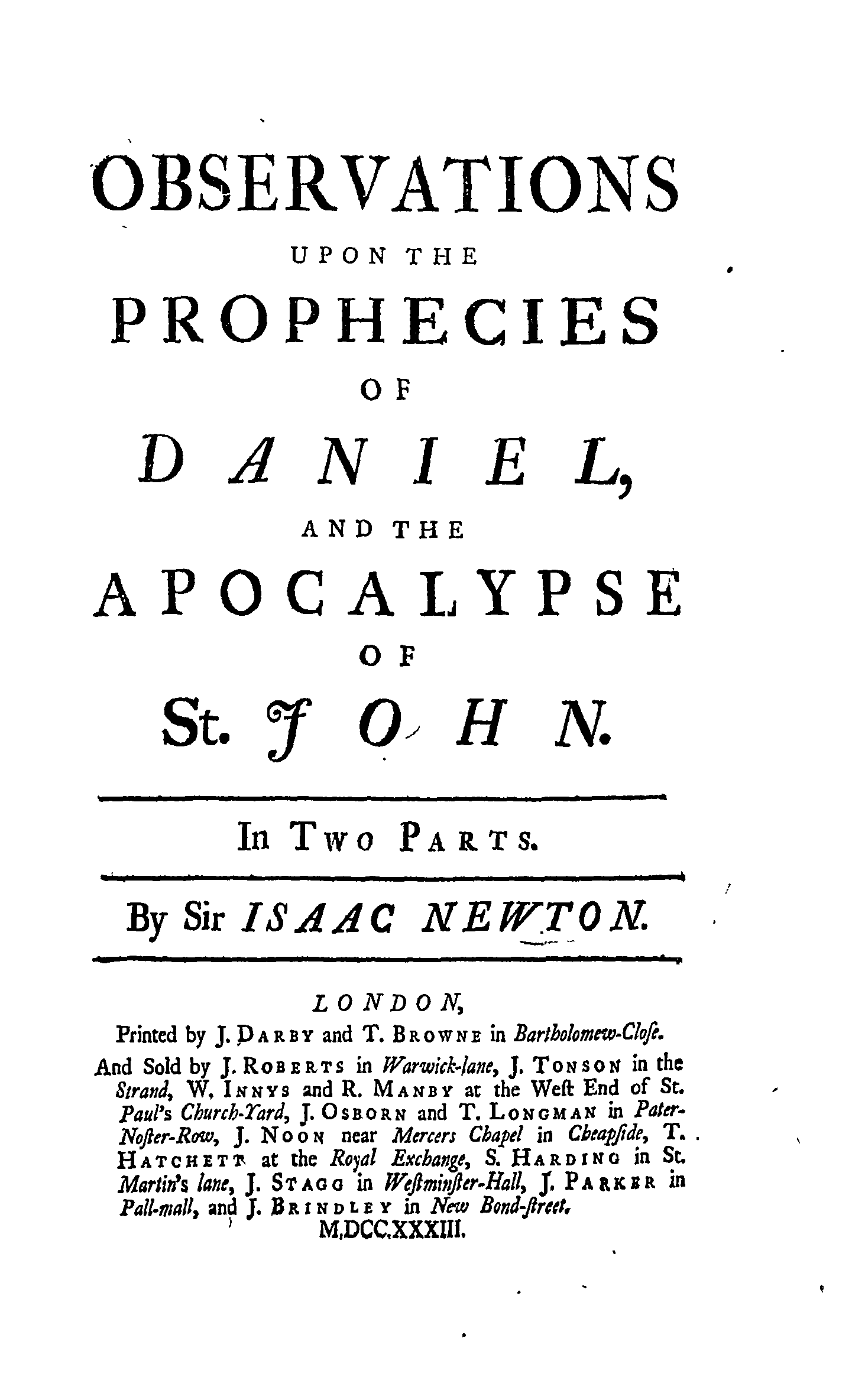 Frontispiece, Observations upon the Prophecies of Daniel and the Apocalypse of St. John